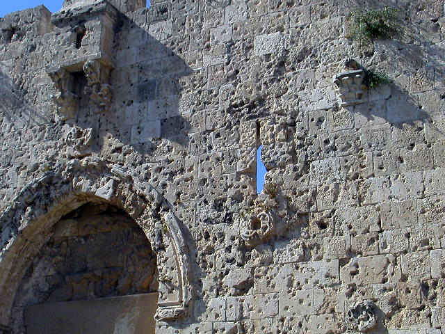 Bullet-scarred Zion Gate, Old City, Jerusalem.